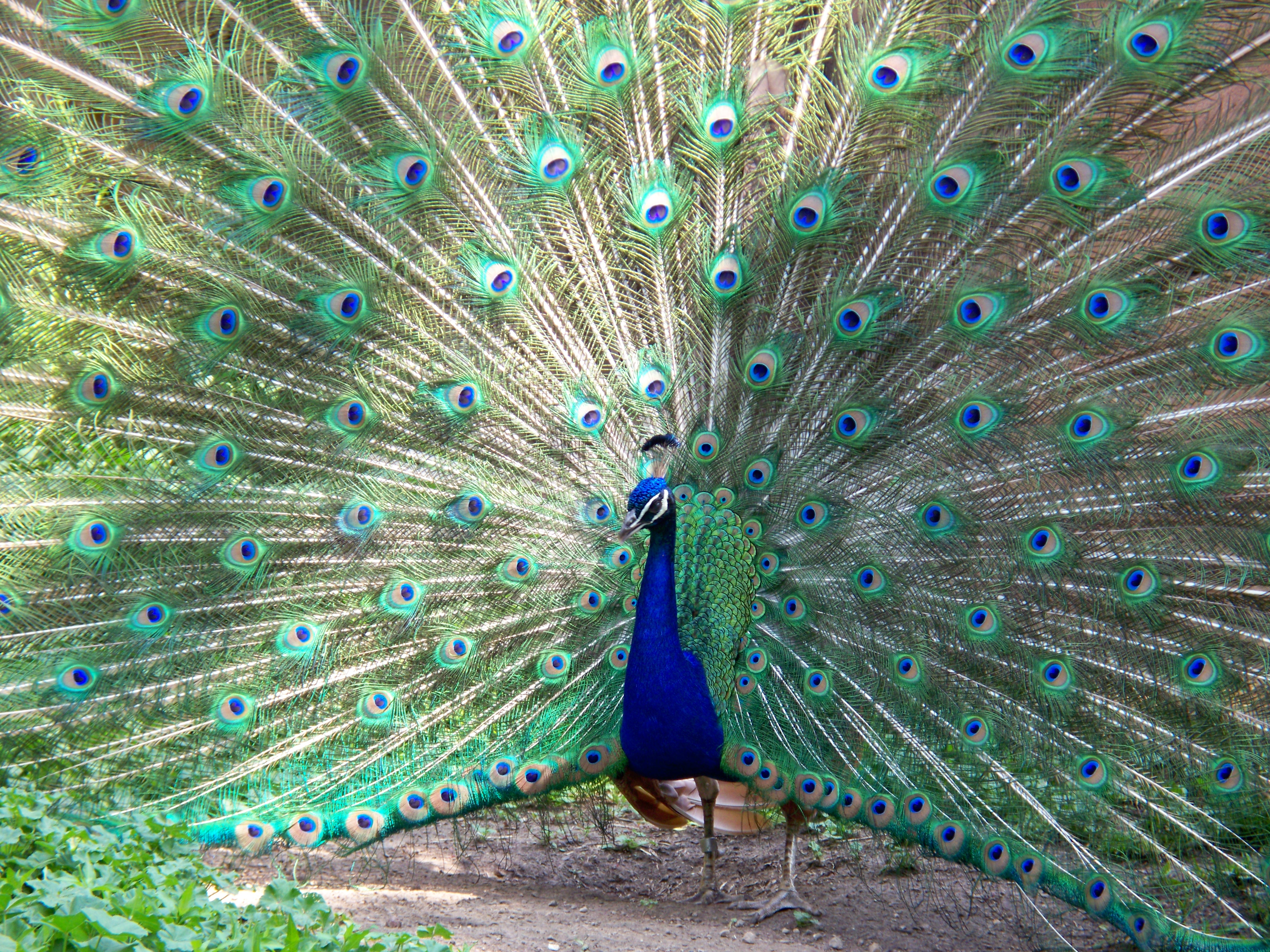 Peacock displaying his feathers at the Milwaukee Zoo.